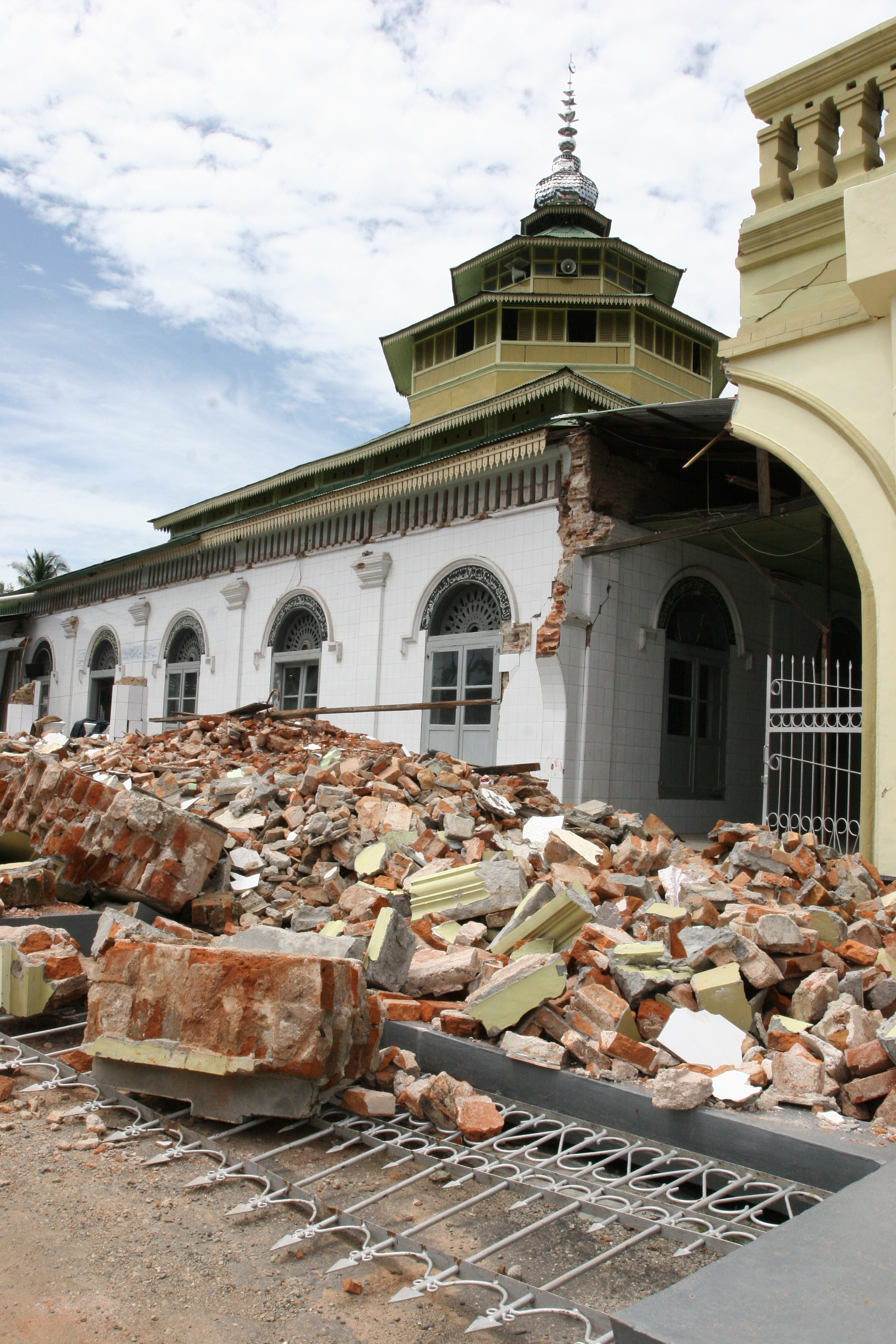 A destroyed section of Masjid Raya Ganting (Grand Mosque of Ganting). The mosque is located in the city center, in a densely populated neighborhood. Built in 1700, it is the oldest mosque in Padang, West Sumatra.